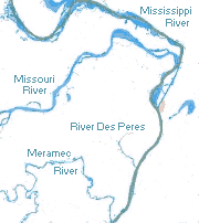 Rivers around St. Louis. Adapted from a map created by the U.S Census Bureau's online TIGER Mapping service (public domain).